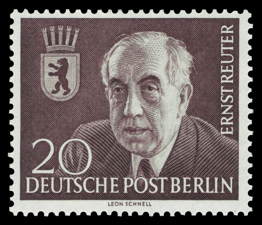 Memorial stamp for the death of Ernst Reuter (1889-1953) Graphics by Leon Schnell Ausgabepreis: 20 Pfennig First Day of Issue / Erstausgabetag: 18. Januar 1954 Michel-Katalog-Nr: 115 (Berlin)